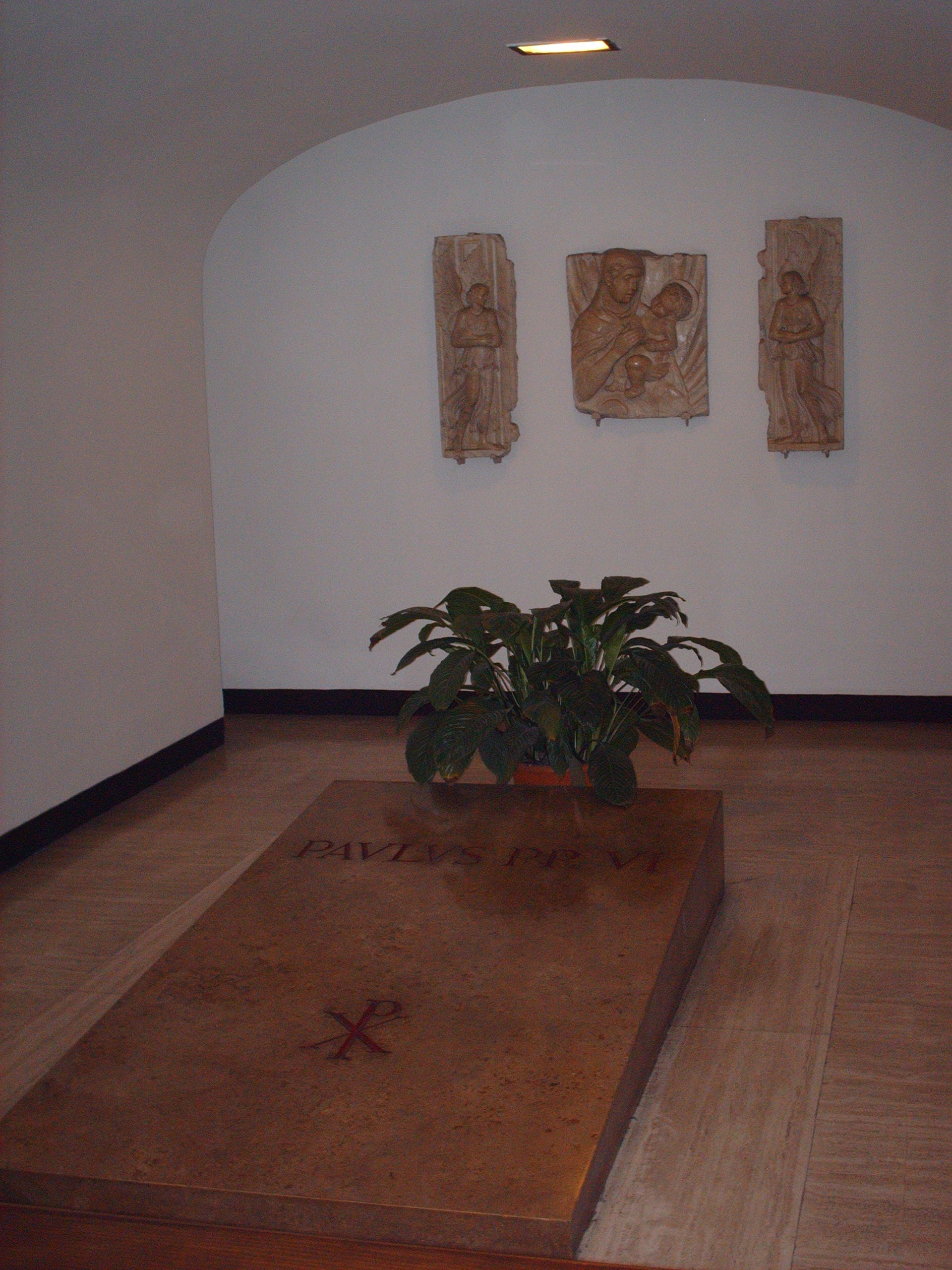 Tomb of pope Paulus VI (Giovanni Montini), "grotte vaticane", Basilica di San Pietro